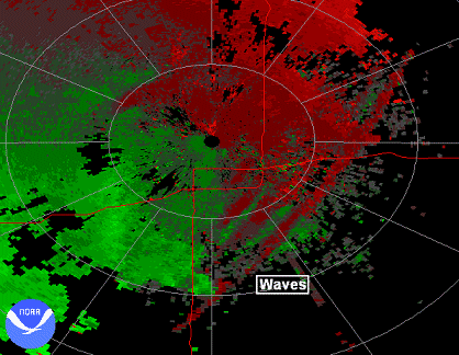 Undular bore above Iowa NEXRAD image